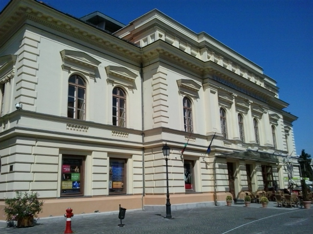 Vörösmarty Theatre from S. - Fő street, Székesfehérvár, Hungary